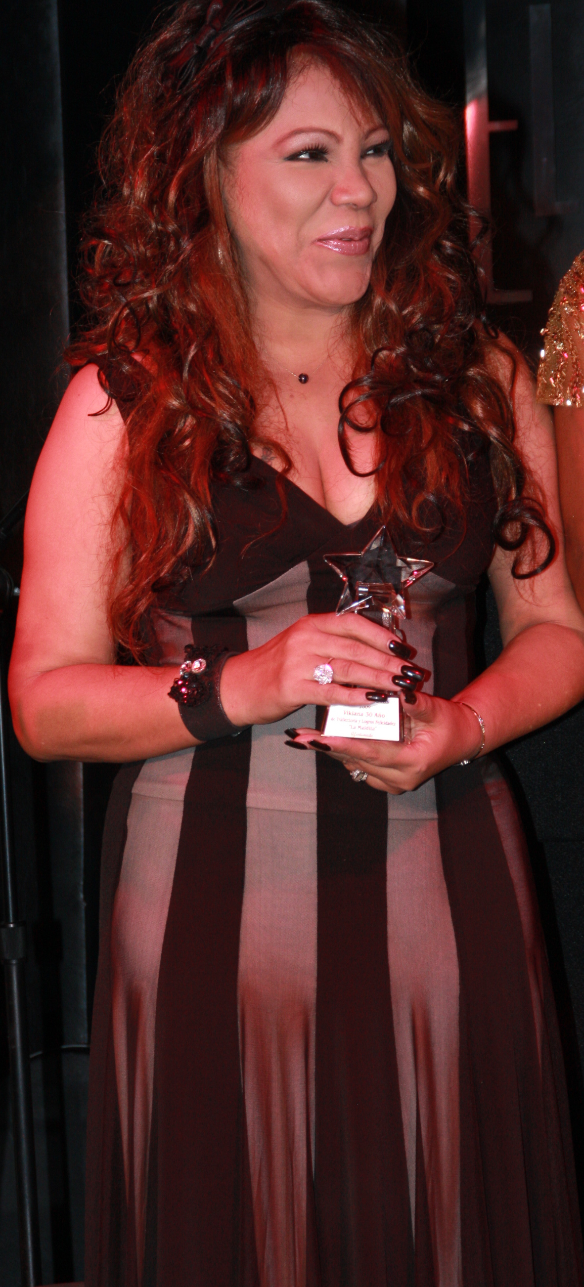 adjusted version of Image:Vikiana.jpg